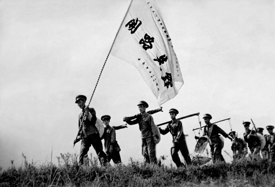 A photograph of members of the People's Liberation Army marching to participate in the construction of the Tianshui-Lanzhou Railway in China. The banner reads "开路先锋" meaning "Trailbreakers", referring to the group of soldiers themselves.